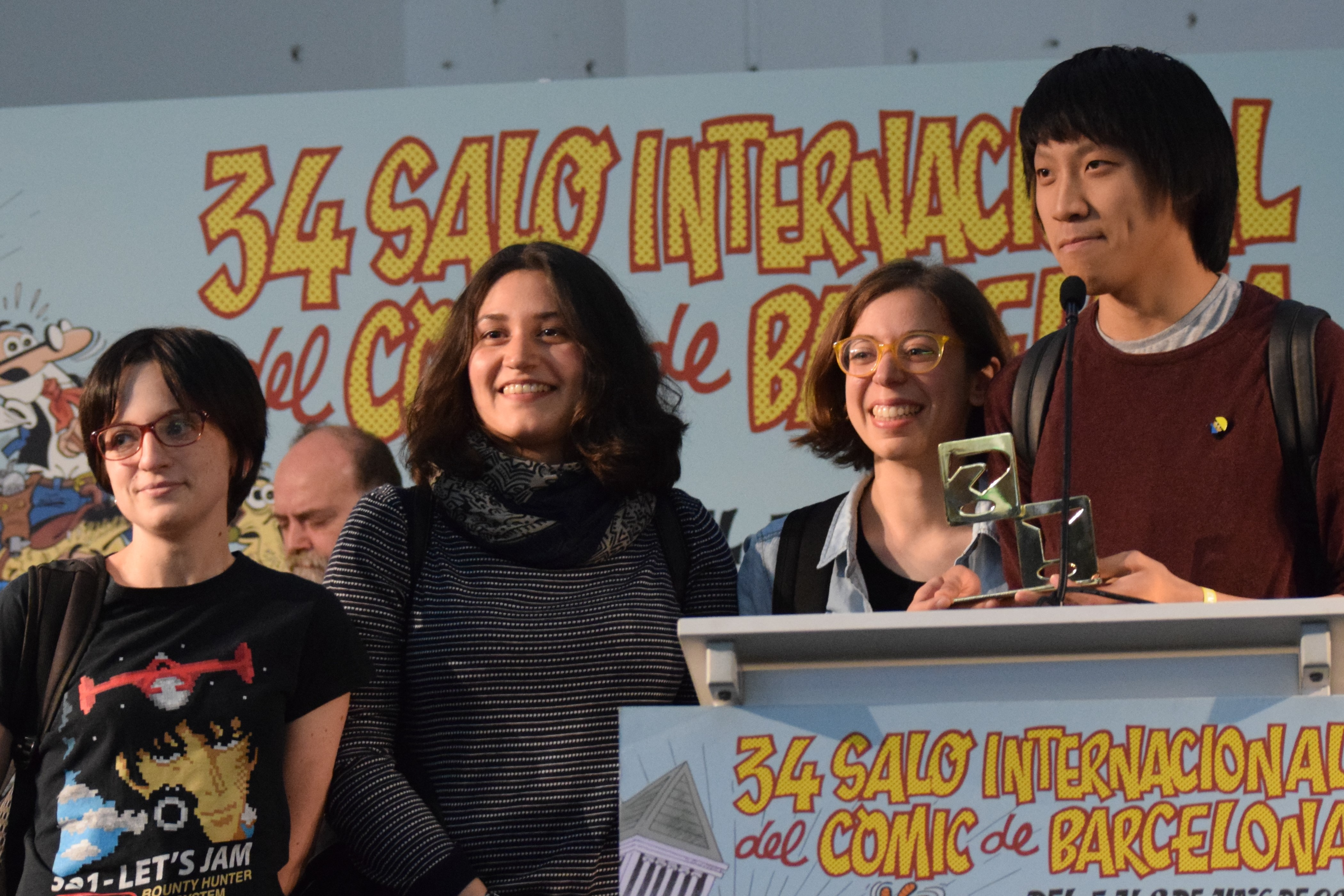 Award Ceremony to the best Fanzine of 2016. The awarded fanzine was Nimio, from Valencia. The authors Maria Ponce, Núria Tamarit, Anabel Colazo and Luis Yang collecting the prize. Barcelona Internacional Comic Convention. Friday 6 may 2016.